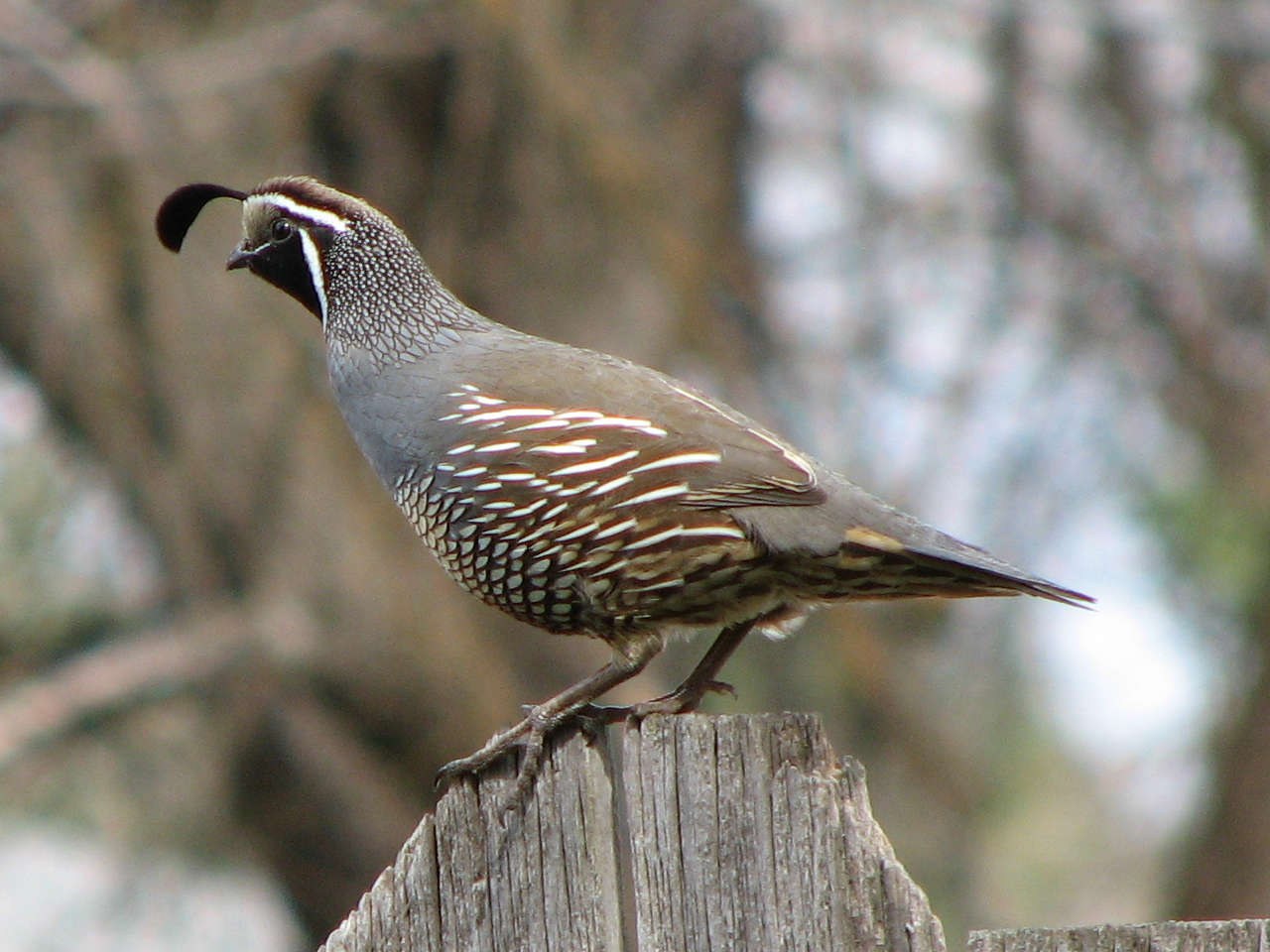 A cropped image of a California Quail on a fence. Photo taken on April 22, 2009, in Spokane, WA.